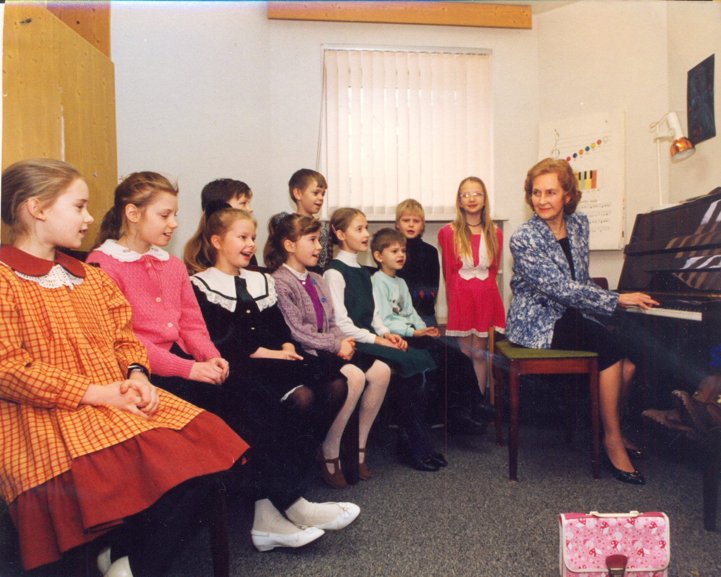 Guna Goluba music teacher at the Latvian school in Moscow (1994)